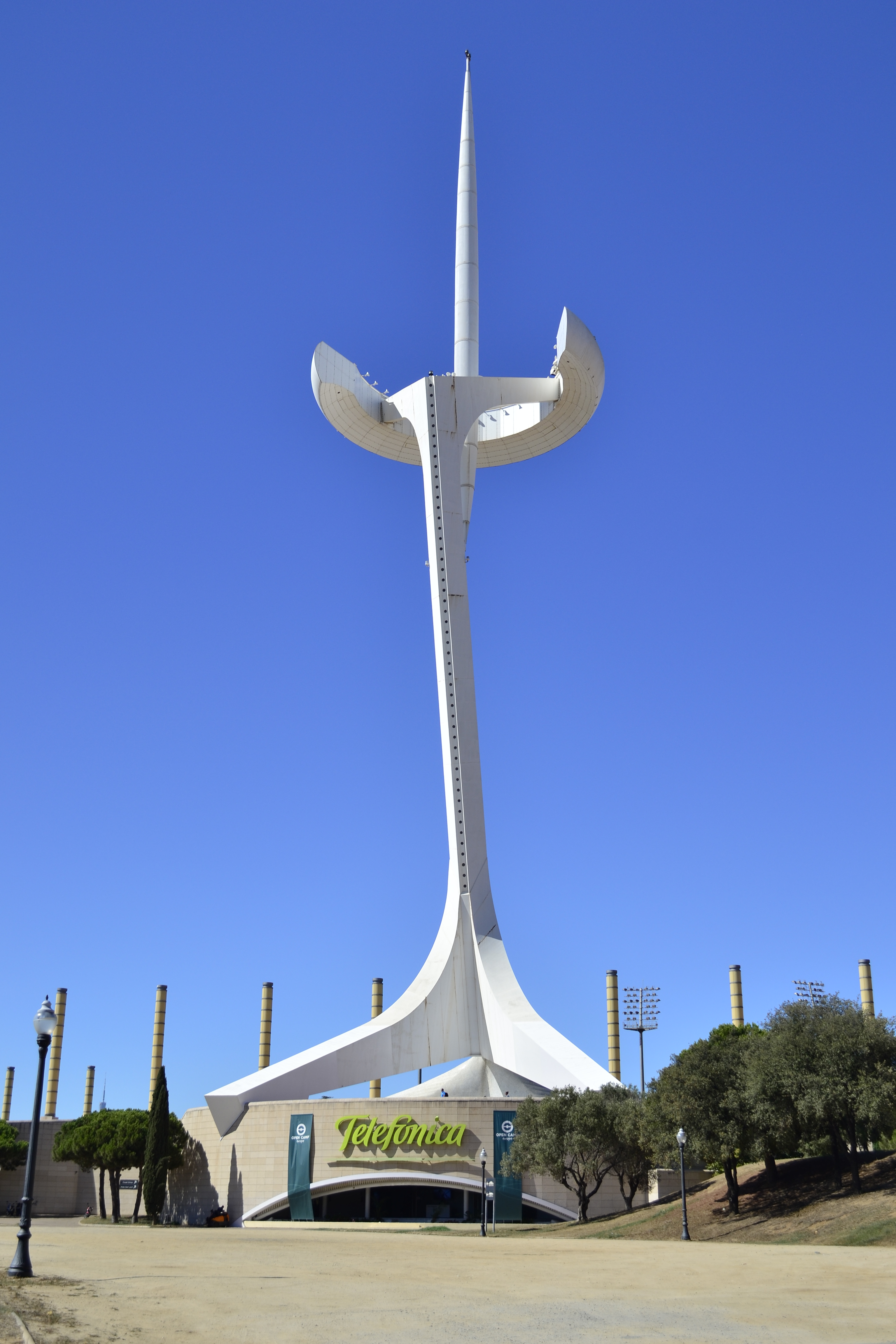 Telefonica Tower in Barcelona